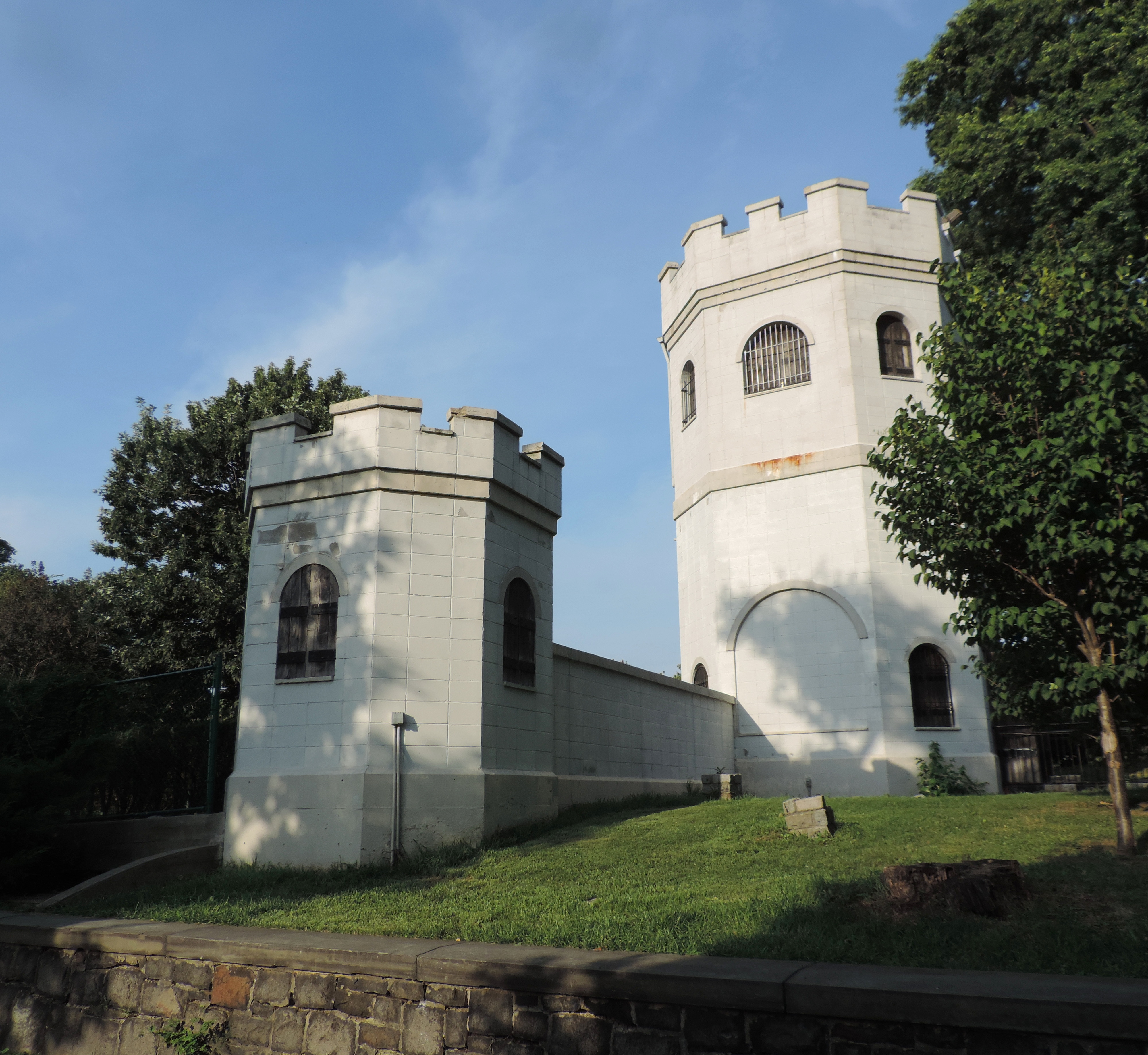 Looking northeast at castle, late on a mostly sunny day.